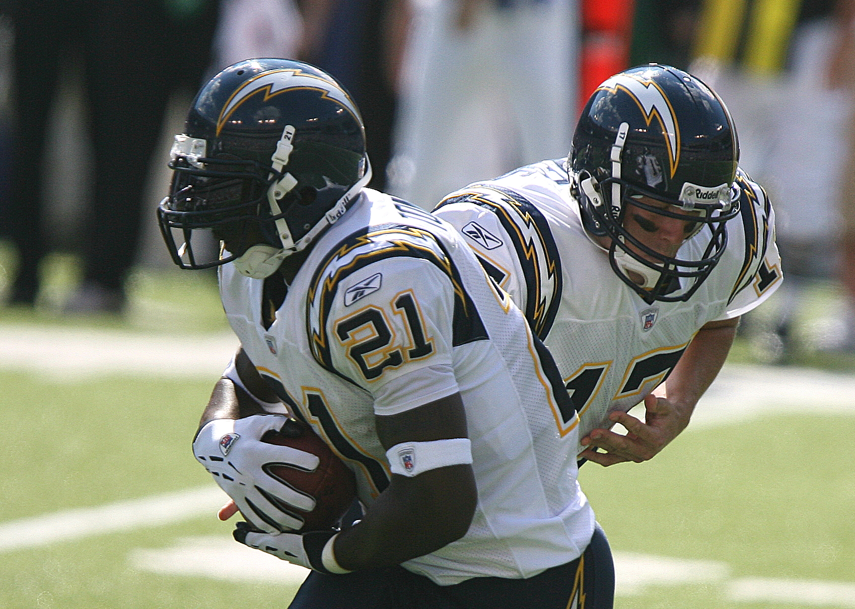 Ladainian Tomlinson with the Chargers during his historic MVP season